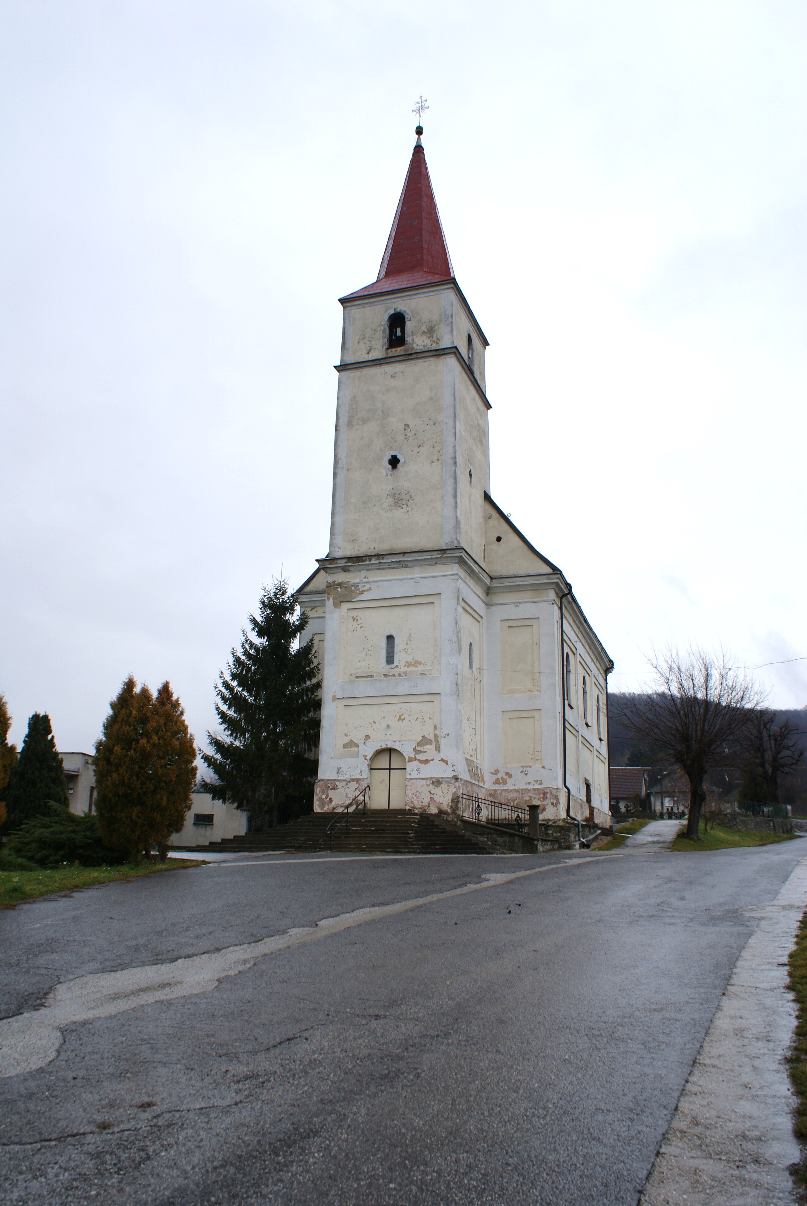 Church in Pernek, Slovakia